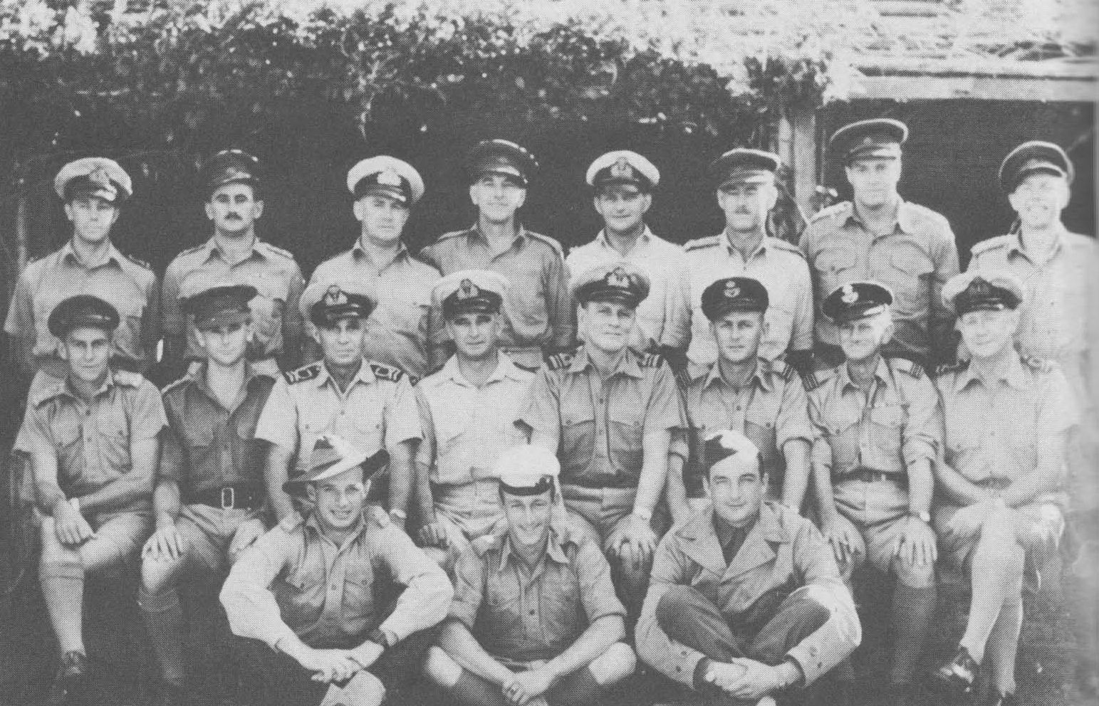 An undated, group photo of Coastwatchers somewhere in the Solomon Islands, probably in 1943 or 1944. Eric Feldt is in the middle row, fourth from the left. Snowy Rhoades is on his left, Hugh Mackenzie on his right. Frank Nash, one of the only U.S. coastwatchers, is seated in the bottom row on the right.